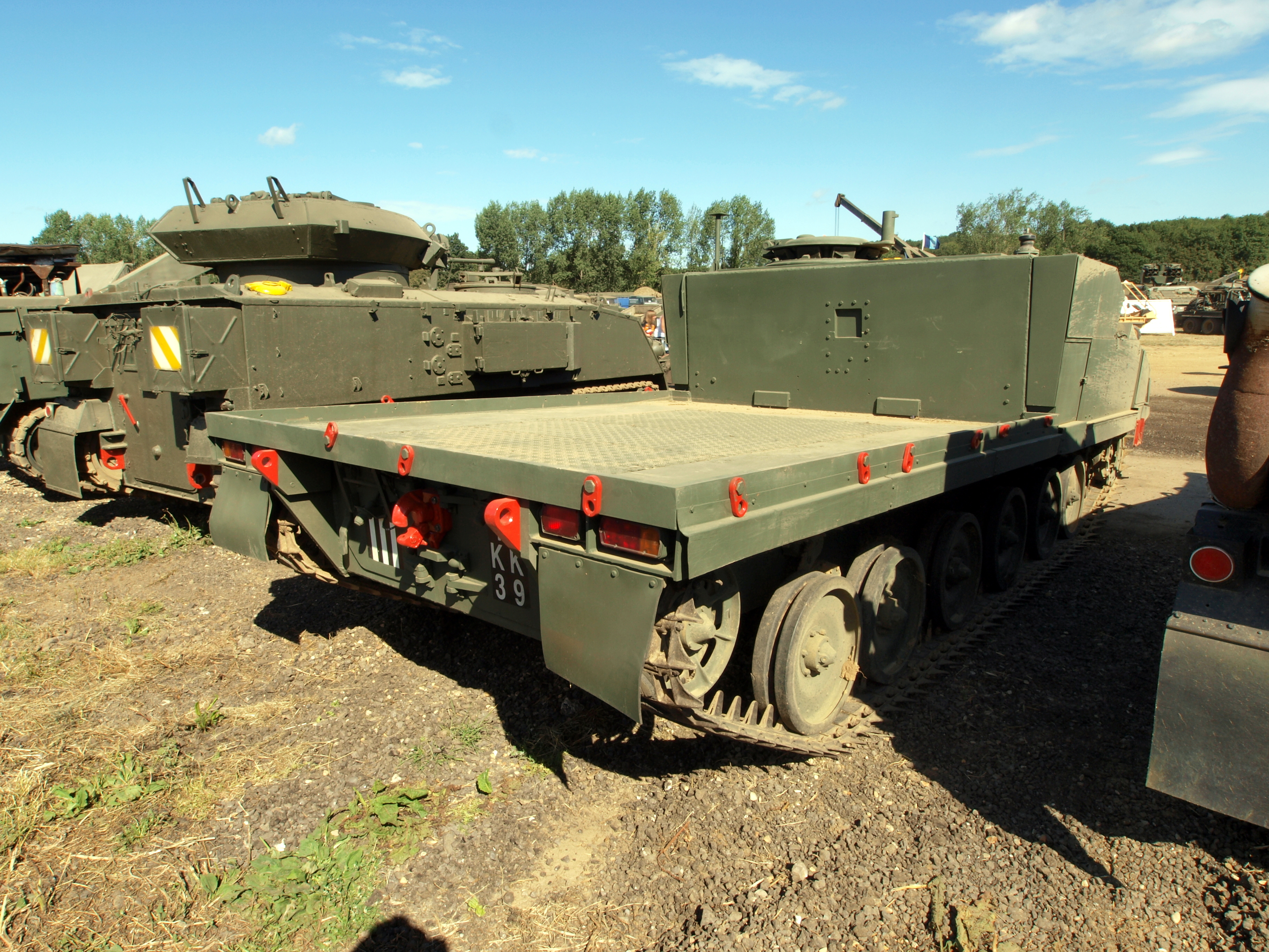 Shielder minelaying system without the system.